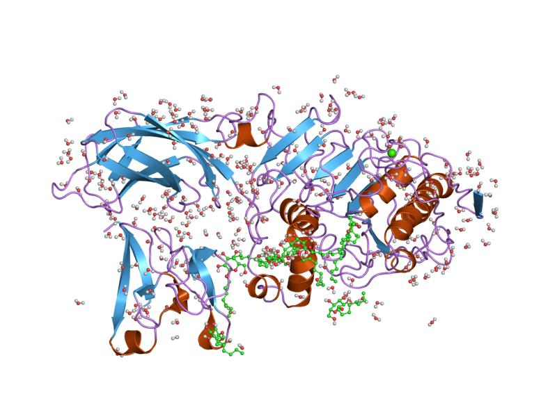 Cartoon representation of the molecular structure of protein registered with 1lpb code.